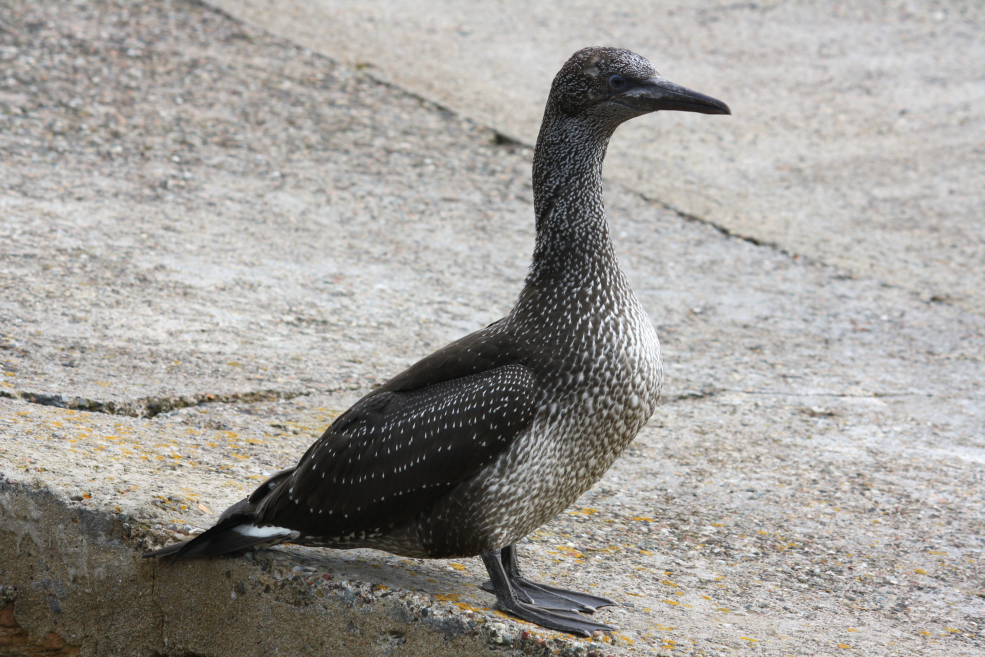 Northern Gannet (Morus bassanus), Elie, Scotland, 2010.